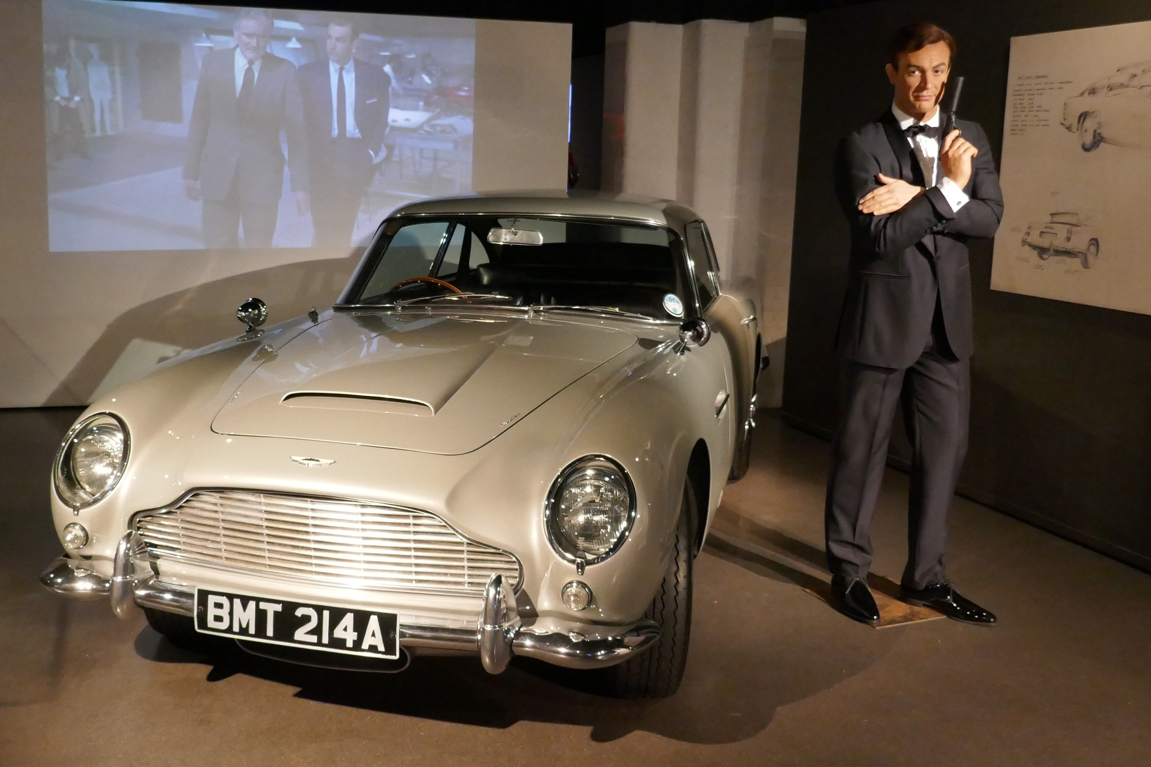 Goldfinger - Aston Martin DB5 & Sean Connery